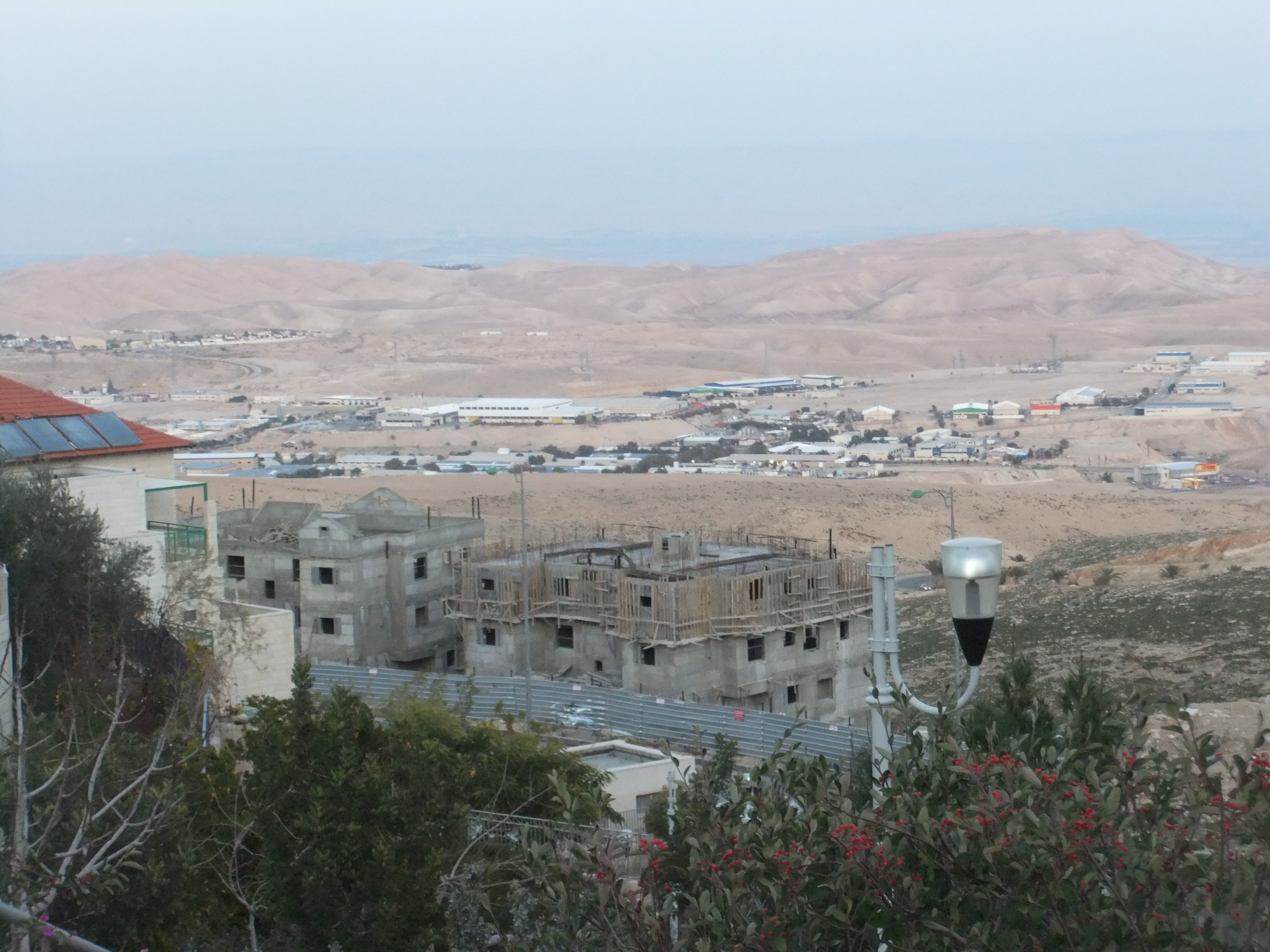 Ma'ale Adumim view from 07 neighborhood to the industrial area.